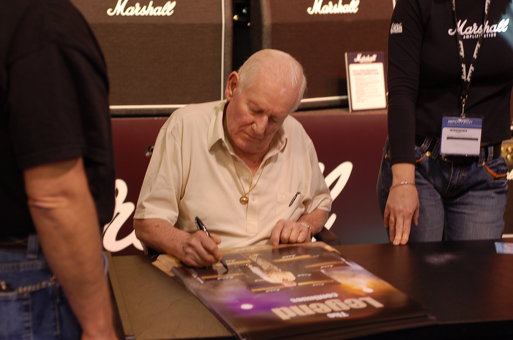 Guitar amplifier pioneer Jim Marshall (UK) signing autographs at the 2007 Winter NAMM Show in Anaheim, California.